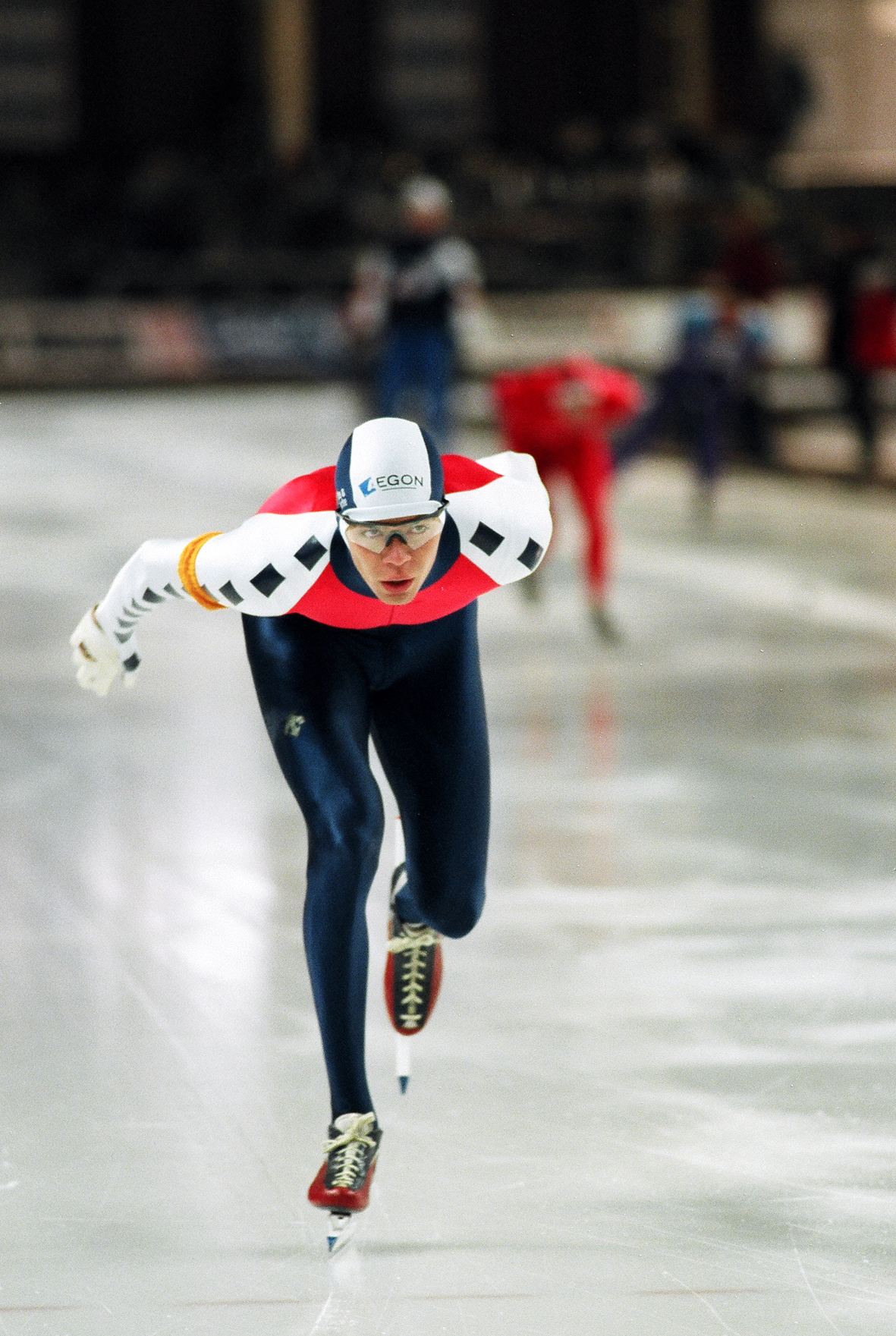 Falko Zandstra is a former speedskater from the Netherlands